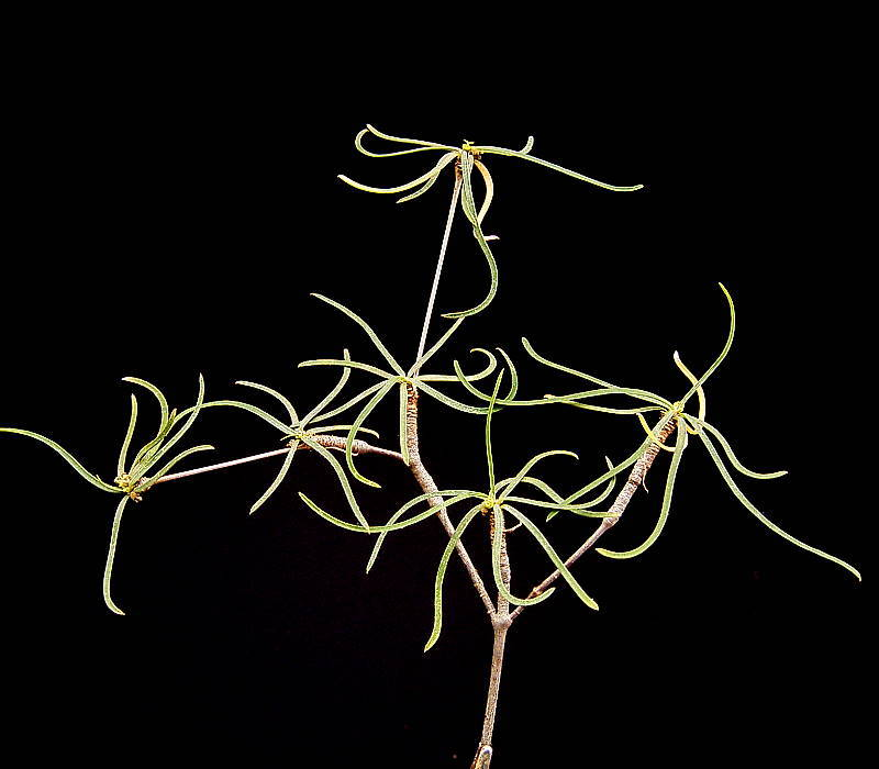 Euphorbia hedyotoides